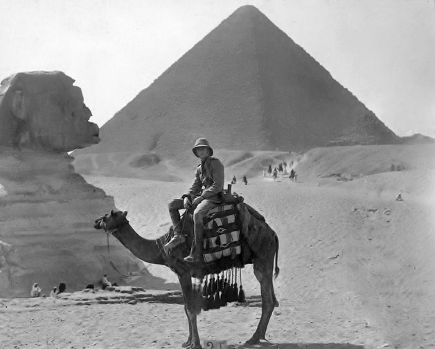 North Africa: Egypt, Giza. Outdoor portrait of 2nd Lieutenant (2nd Lt) Roy Cecil Phillipps, 28th Battalion of Perth, WA.